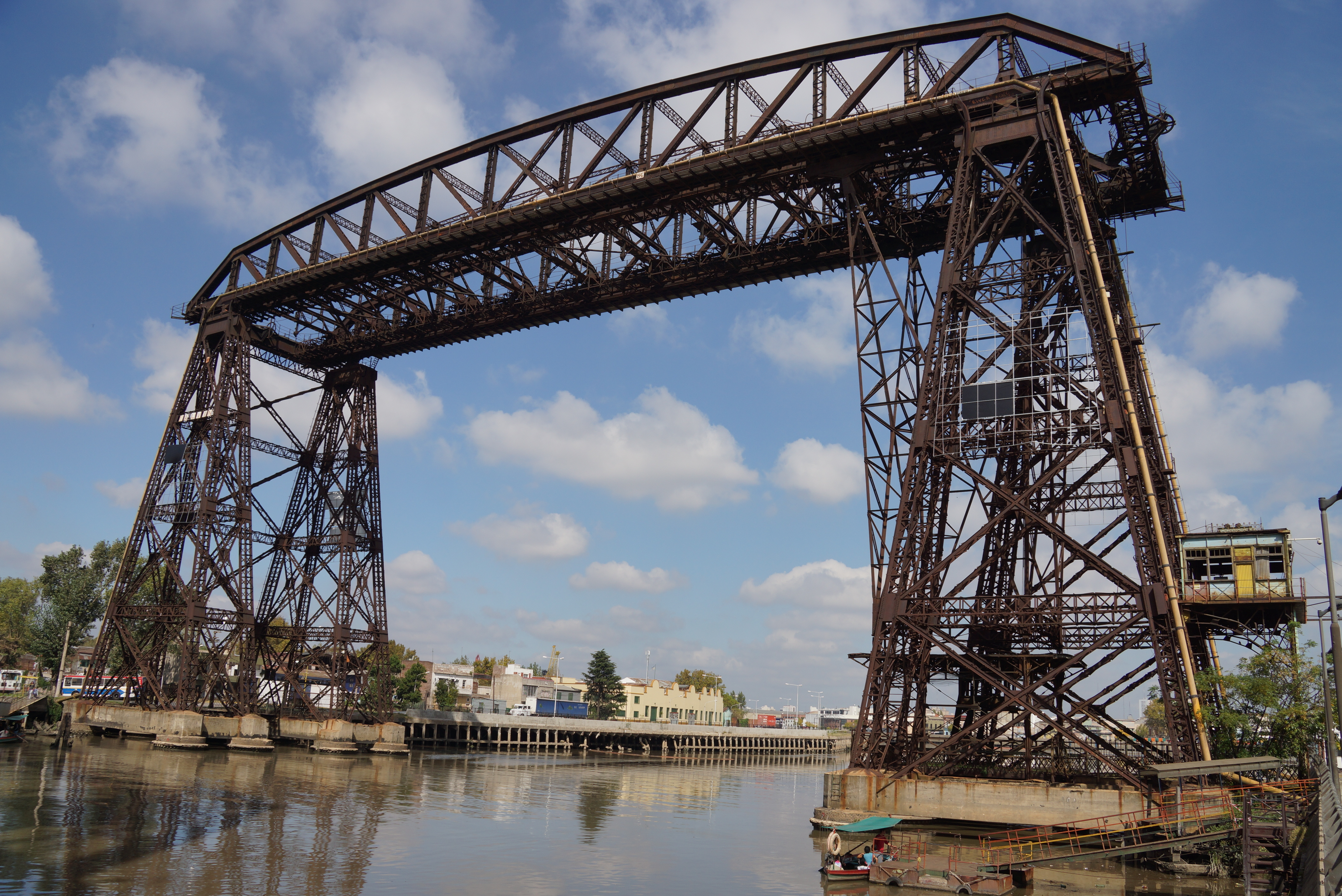 Transporter Bridge "Nicolás Avellaneda" in La Boca, Buenos Aires, Argentina. It was inaugurated in 1914.